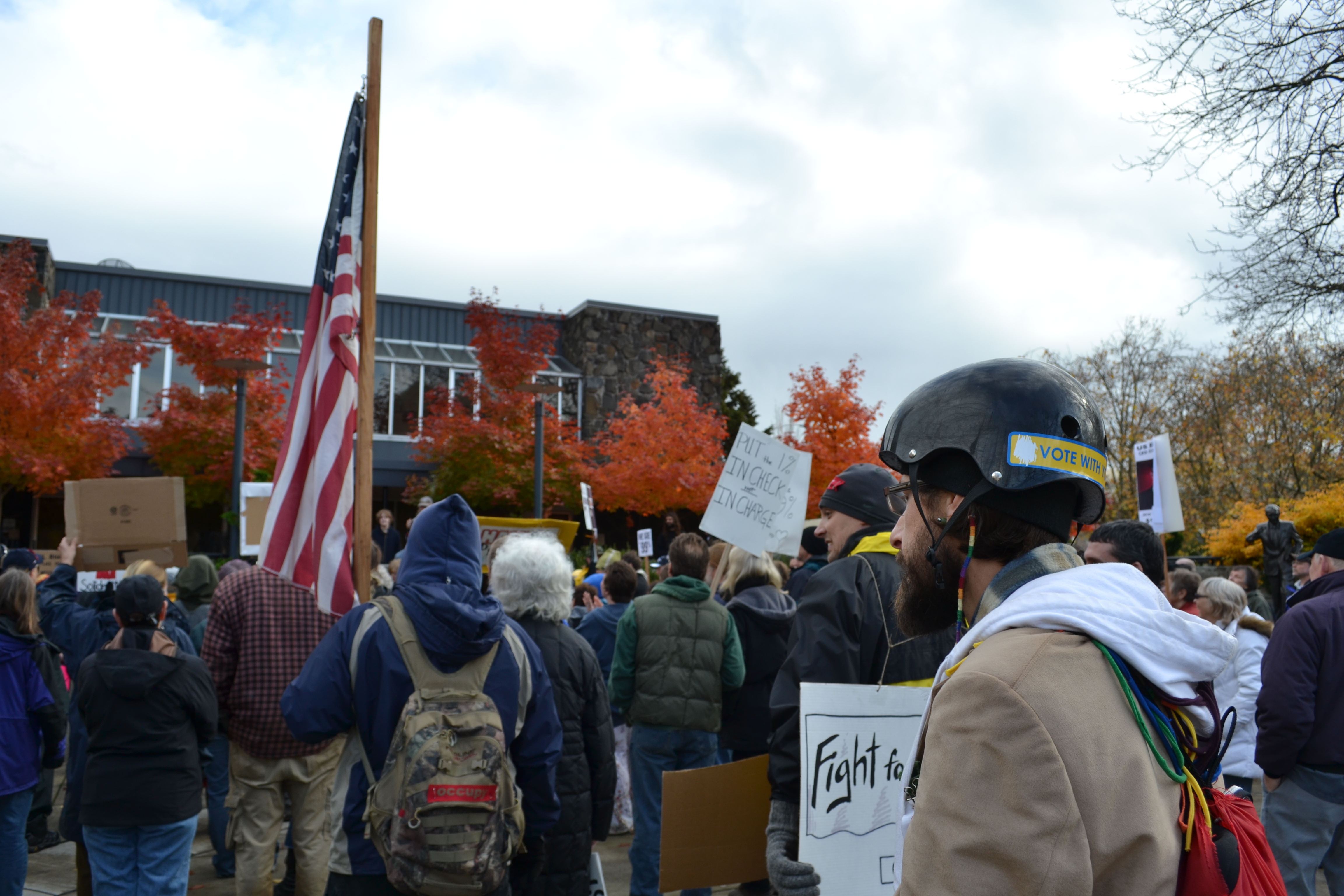 Occupy Eugene Rally 3 (Eugene, Oregon)